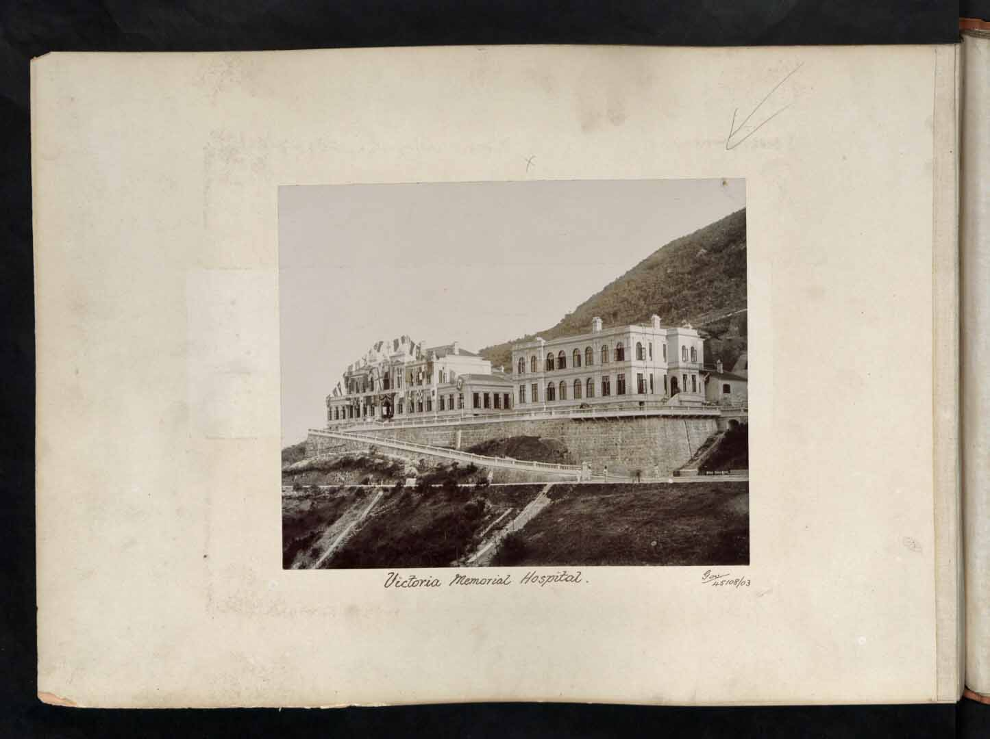 Description: Victoria Memorial Hospital. Victoria Memorial Hospital on 15-17,Barker Road, Hong Kong. The hospital opened 1903-11-07. On the photo flags are visible, likely from the opening ceremony. Location: Hong Kong Our Catalogue Reference: Part of CO 1069/446. This image is part of the Colonial Office photographic collection held at The National Archives. Feel free to share it within the spirit of the Commons. Please use the comments section below the pictures to share any information you have about the people, places or events shown. We have attempted to provide place information for the images automatically but our software may not have found the correct location. For high quality reproductions of any item from our collection please contact our image library